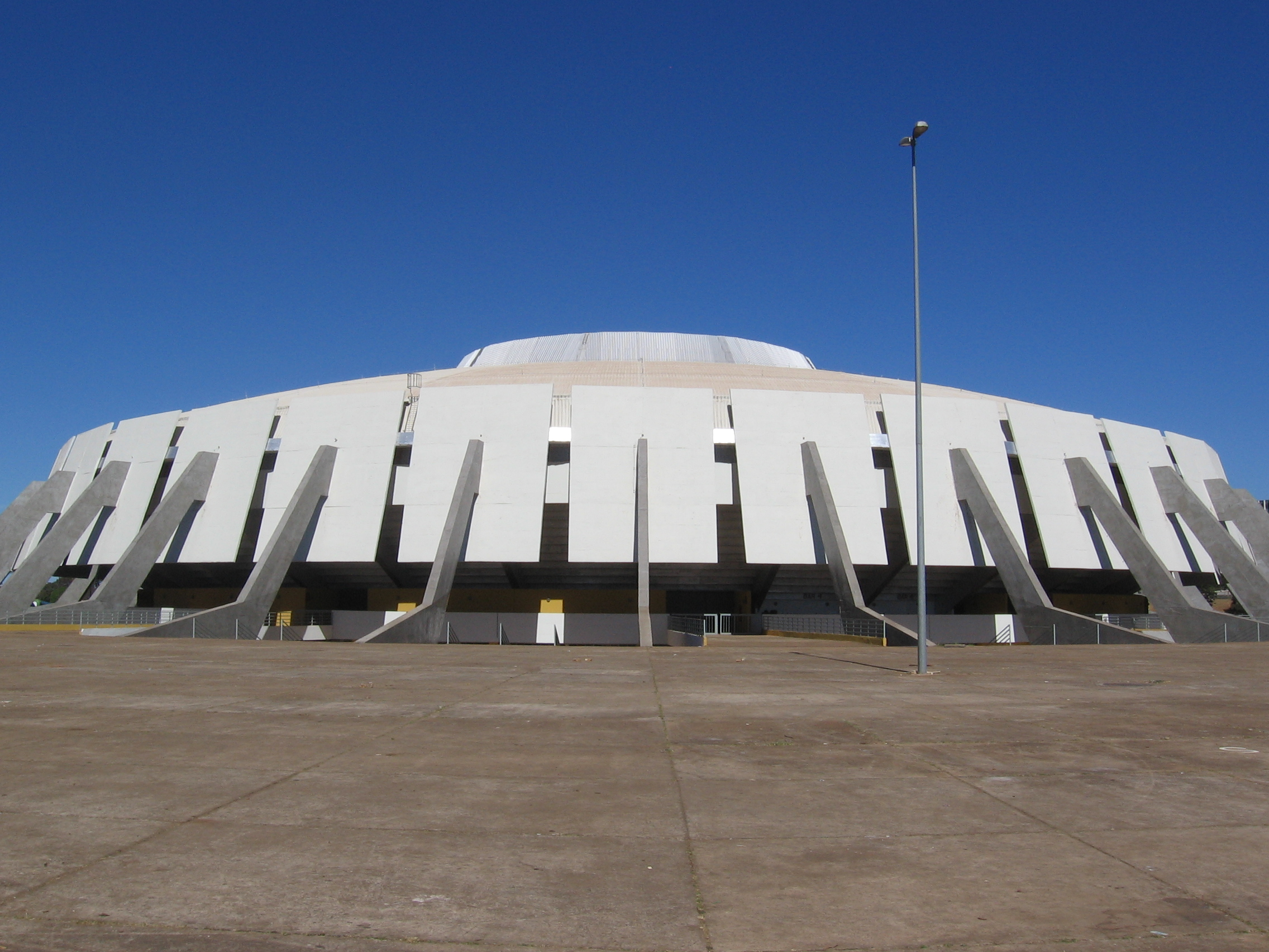 Picture of Ginasio Nilson Nelson, in Brasilia, Brazil